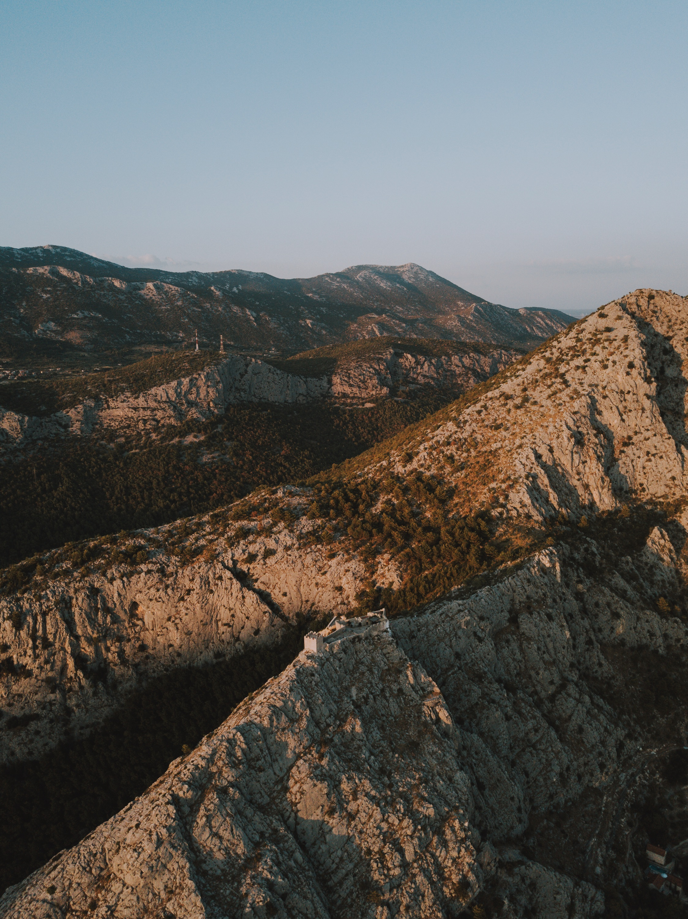 Fortica: Croatian Monument record number Z-5012.